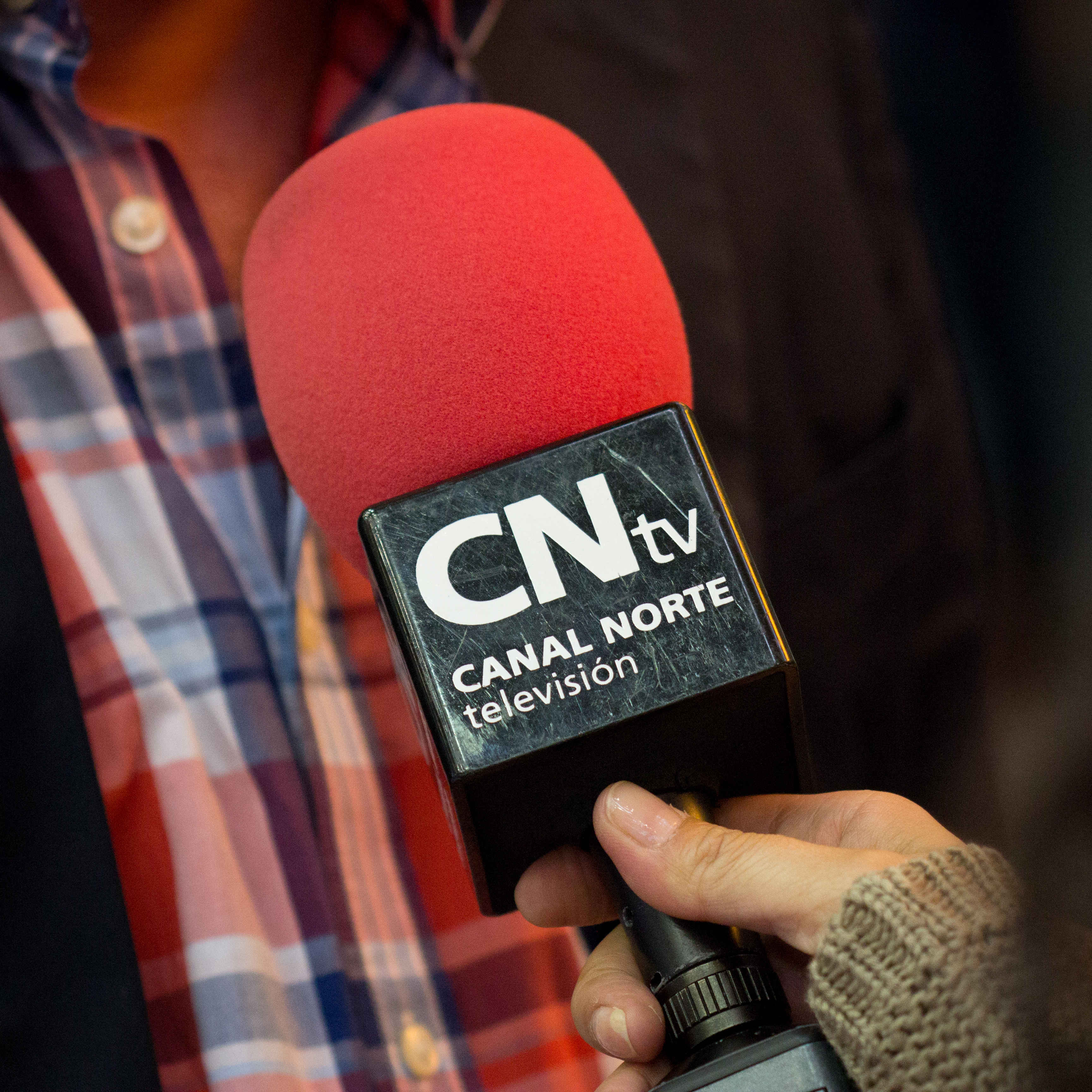 Microphone of Canal Norte TV in an interview.